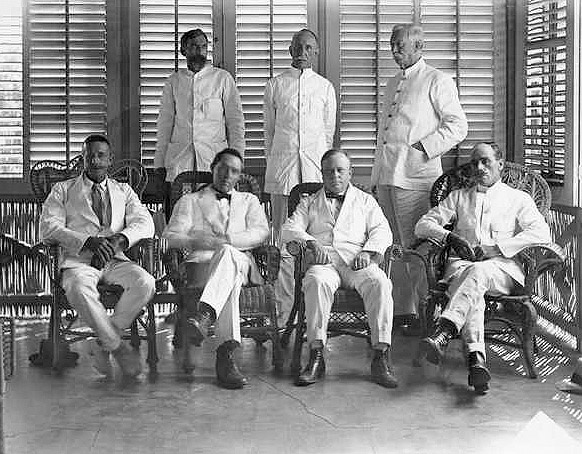 Darwin Advisory Council, Group portrait. Standing, left to right: E. Copley Playford (Chief Warden, representing the Director of Mines); H M Trowers (Director of Lands and Survey); Nicholas Waters (Inspector of Police and Acting Government Secretary). Sitting: A. Ray (Mining Industry); H. Nelson (Labor); H.E. Carey (Director of the L.T. and Chairman; W. Ryan (Labor). The representative of the Pastoral Industry. Thomas Baylis was absent.